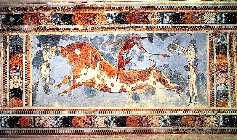 Fresco of bull-leaping from Knossos (an acrobat on a bull with two female acrobats on either side).